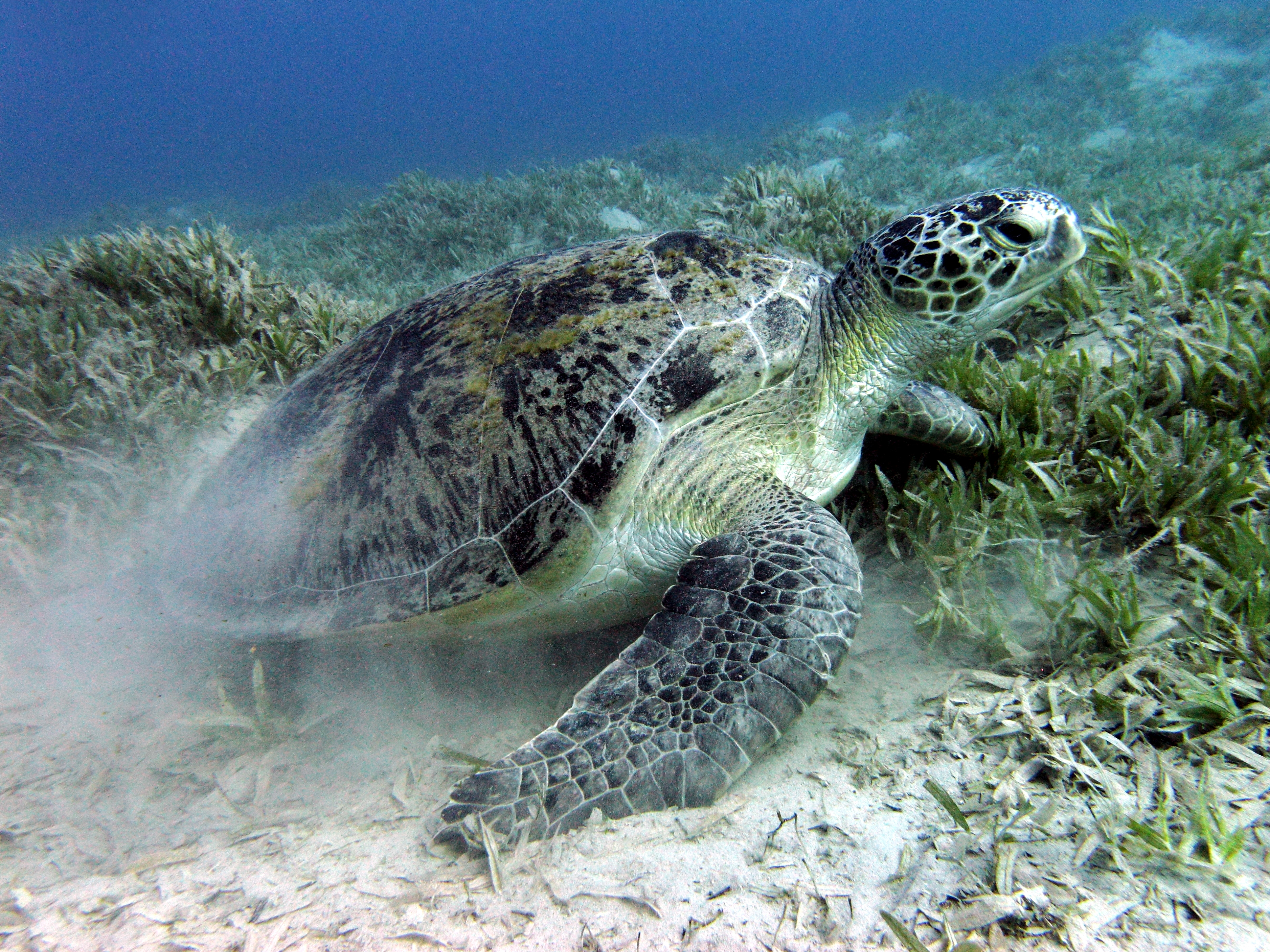 Green sea turtle (Chelonia mydas) near Marsa Alam, Egypt